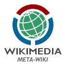 Logo for Wikimedia Meta-wiki.